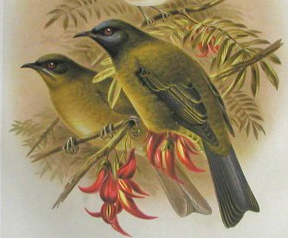 Anthornis melanura, Korimako or New Zealand Bellbird, female on left, male on right.